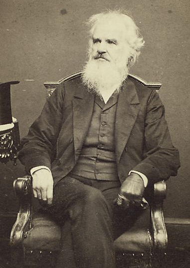 Portrait of Rev. John Pierpont (1785 - 1866)